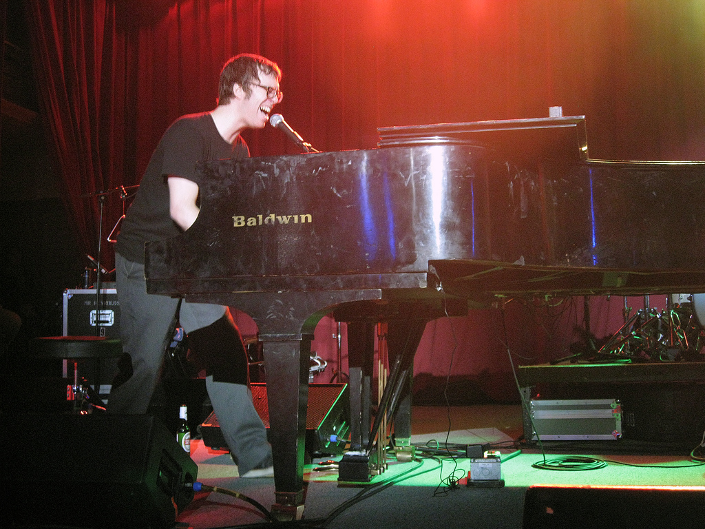 Ben Folds performing in Knoxville, TN at the Valarium on 2009-02-22.